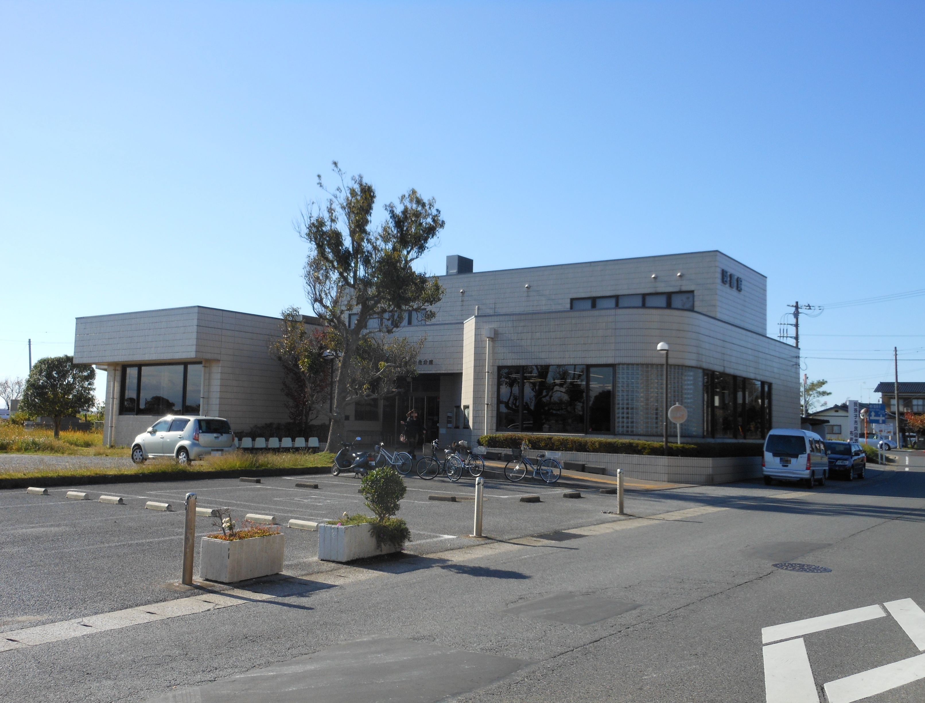 This is the Abiko City Library Fusa Sub Library in Abiko, Chiba, Japan.